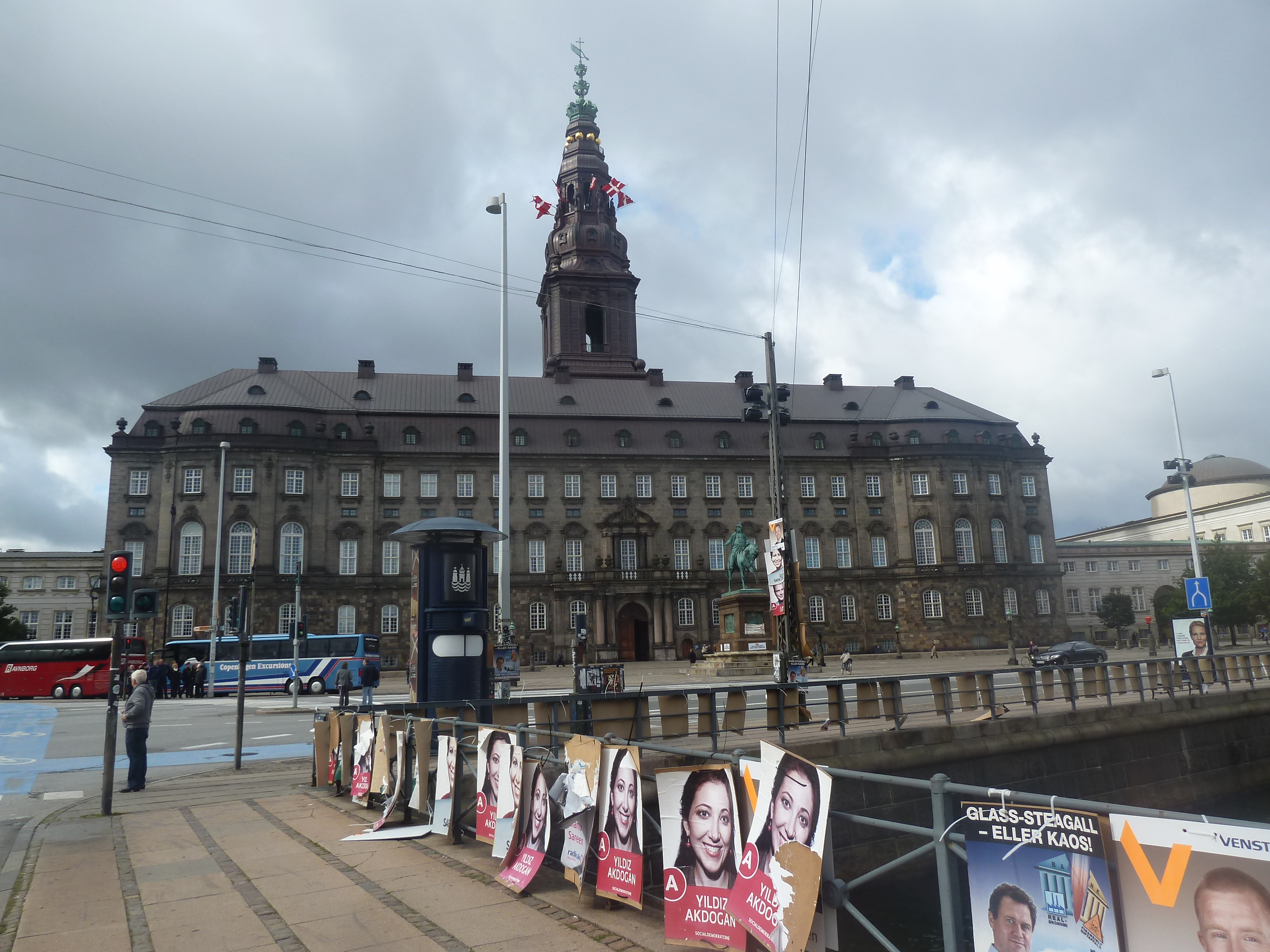 The castle Christiansborg in Copenhagen at the day of election to the danish parliament, Folketinget, which is housed here.